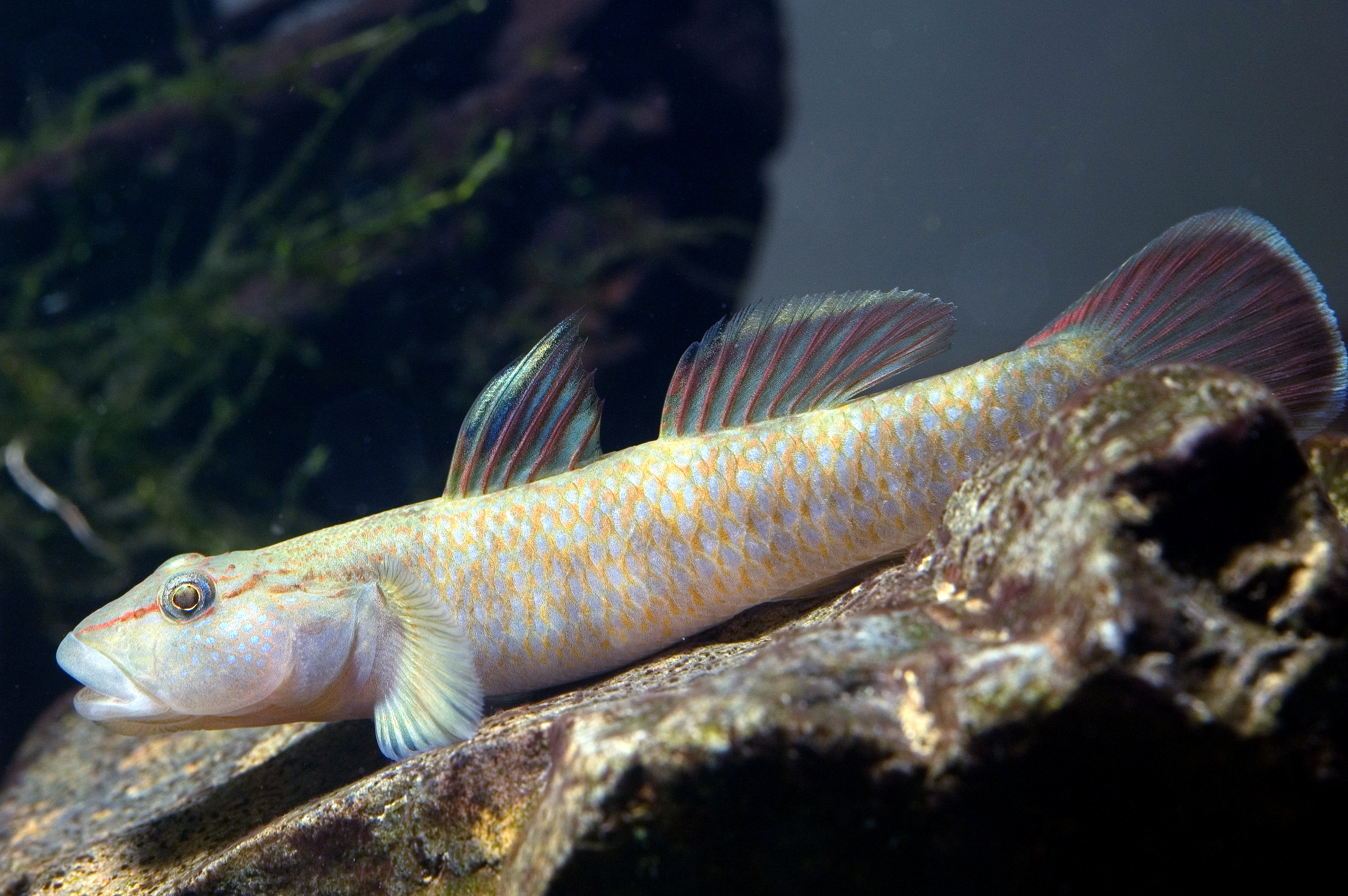 Ruriyoshinobori, Rhinogobius mizunoi, former Rhinogobius sp. CO, from Kawane, Haibara, Shizuoka, Japan.